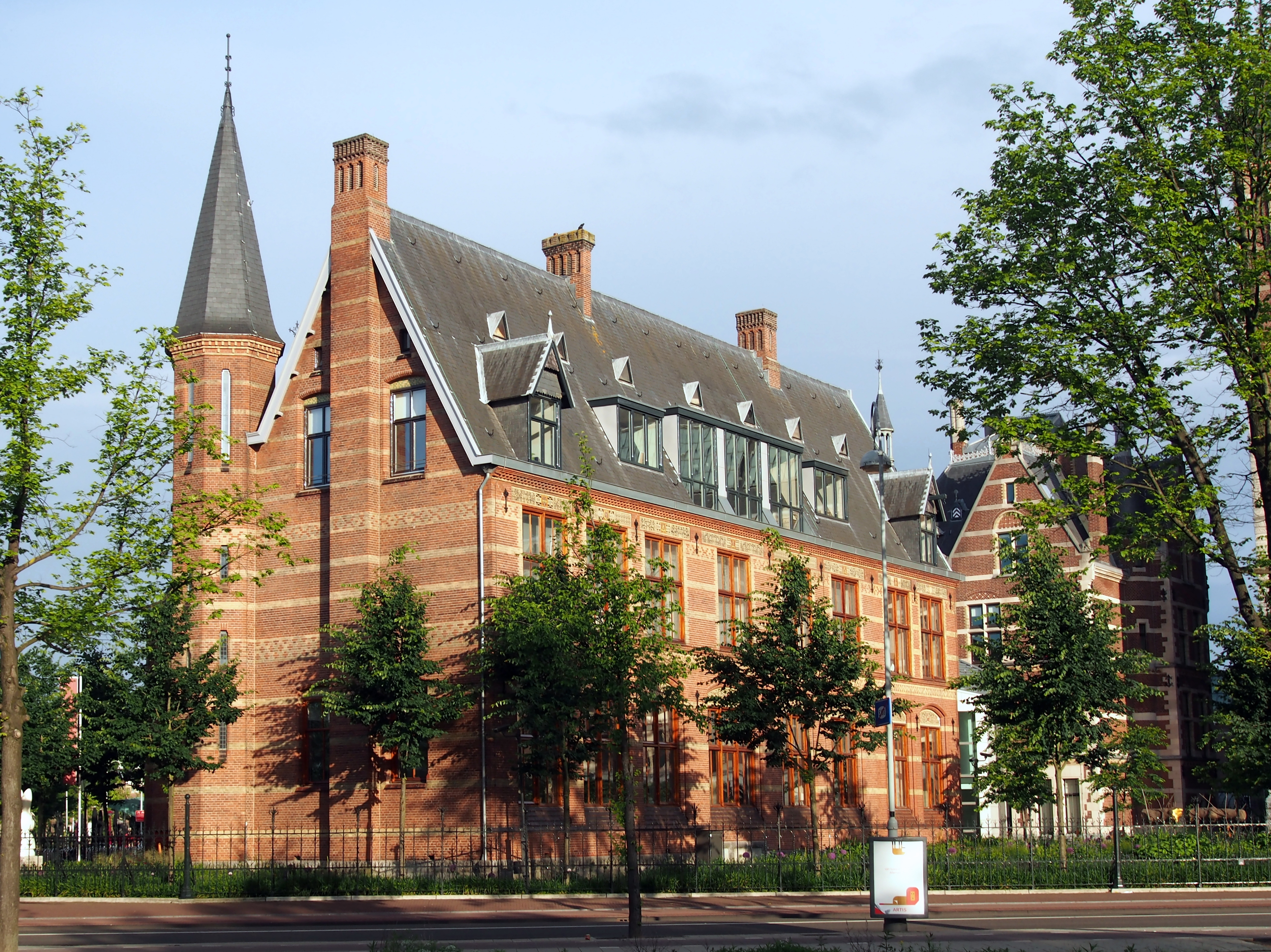 Photographed in Amsterdam.